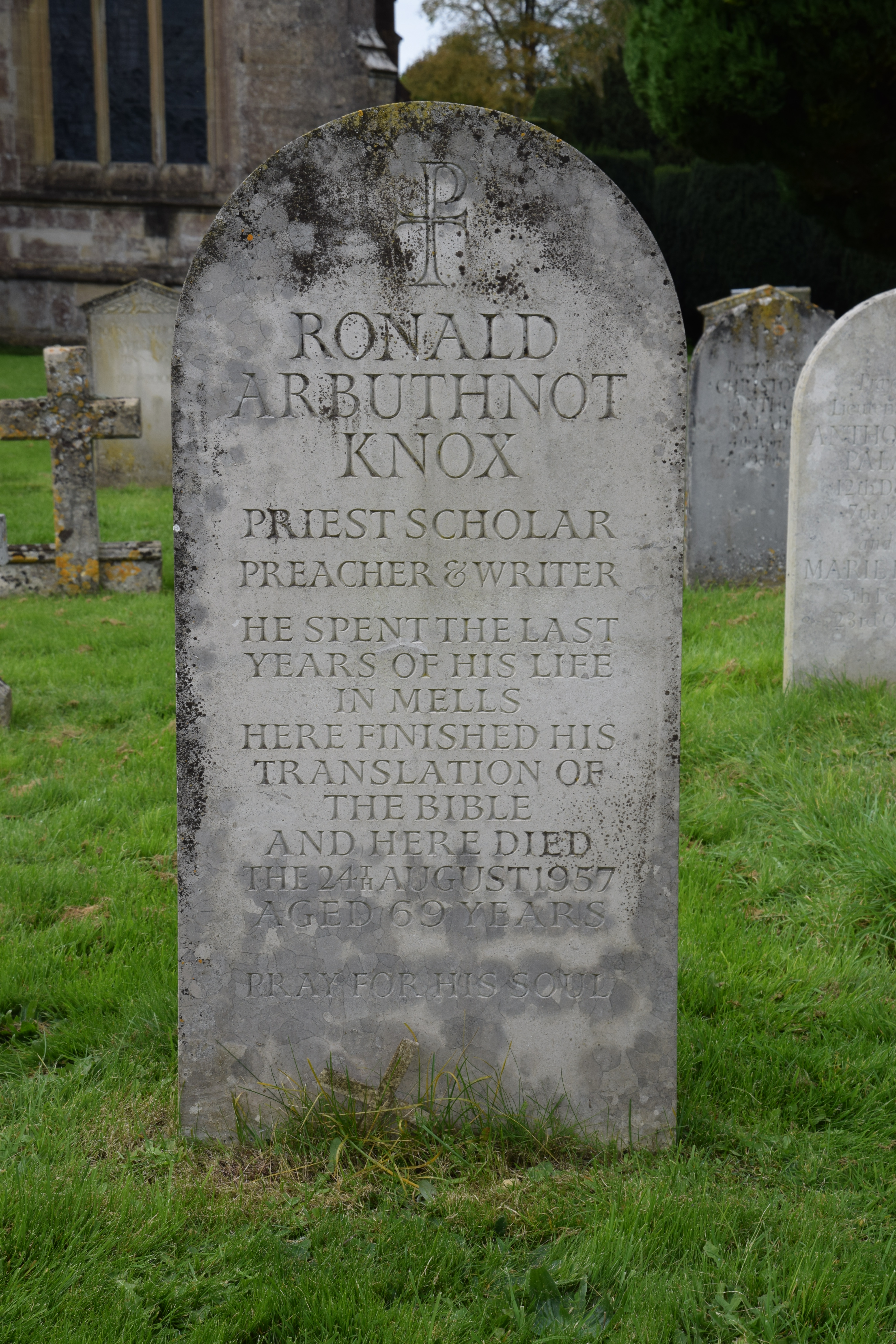 Mells Church (St. Andrew), Somerset, 8 October 2010. Pictured is the gravestone of Ronald Arbuthnot Knox (d:1957), who translated the bible.